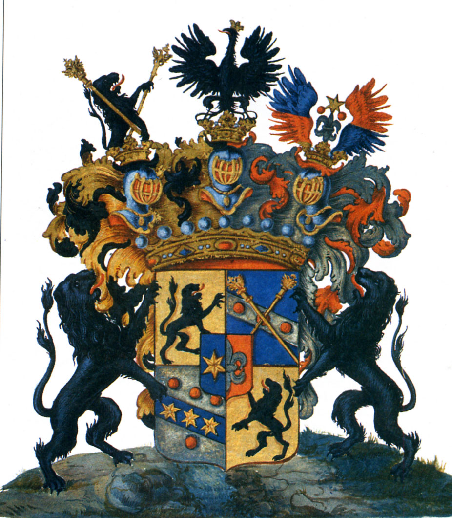 Coat of Arms of Sivers family